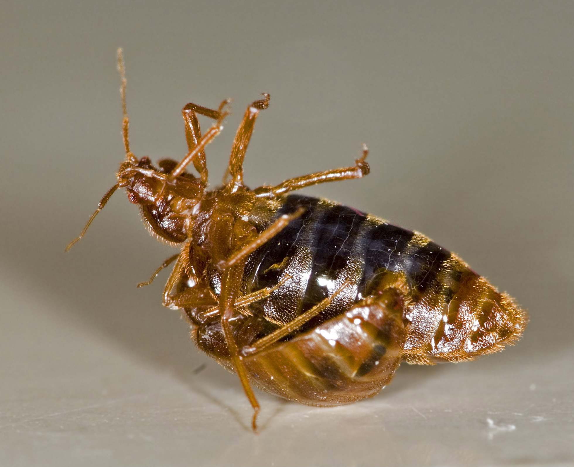 A male bedbug (Cimex lectularius) traumatically inseminates a female one (Cimicids practice traumatic insemination. Although the female has a normal genital tract for laying eggs, the male of most species never uses it, instead piercing the female's abdominal wall; the sperm then migrate through the female's paragenital system.)